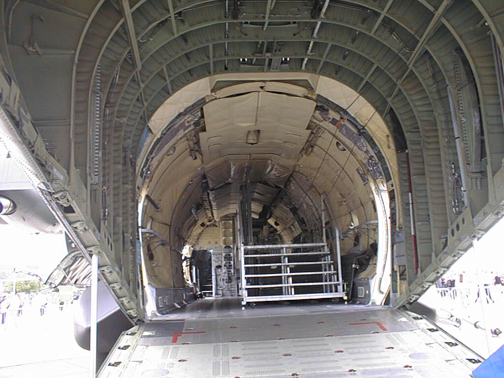 Transall C-160; Air show of June 20, 2004; Avord Air Base, France.